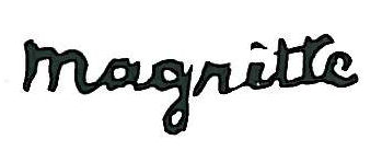 autograph of the painter René Magritte